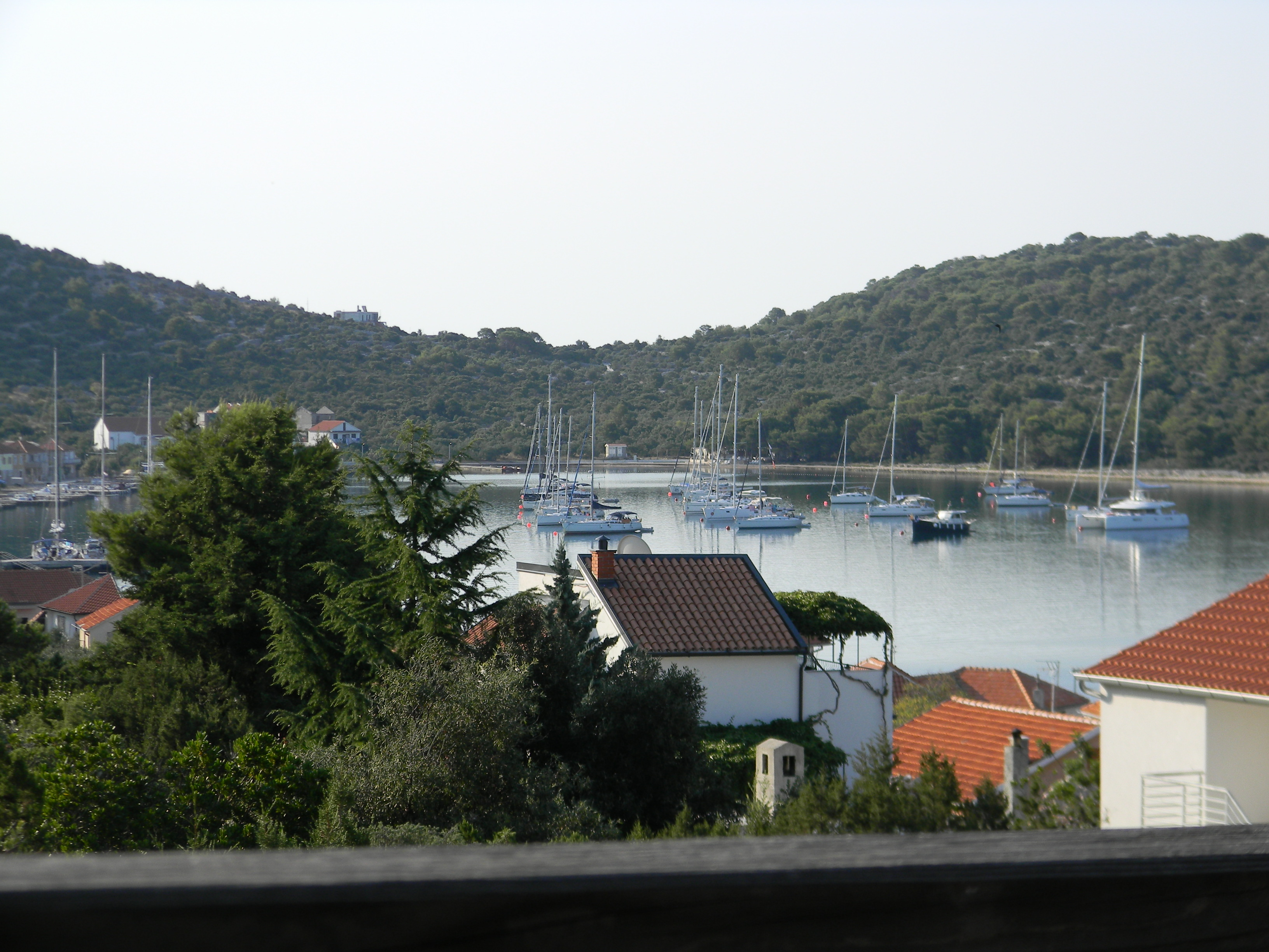 Kaprije - view over the bay and part of the comunity.